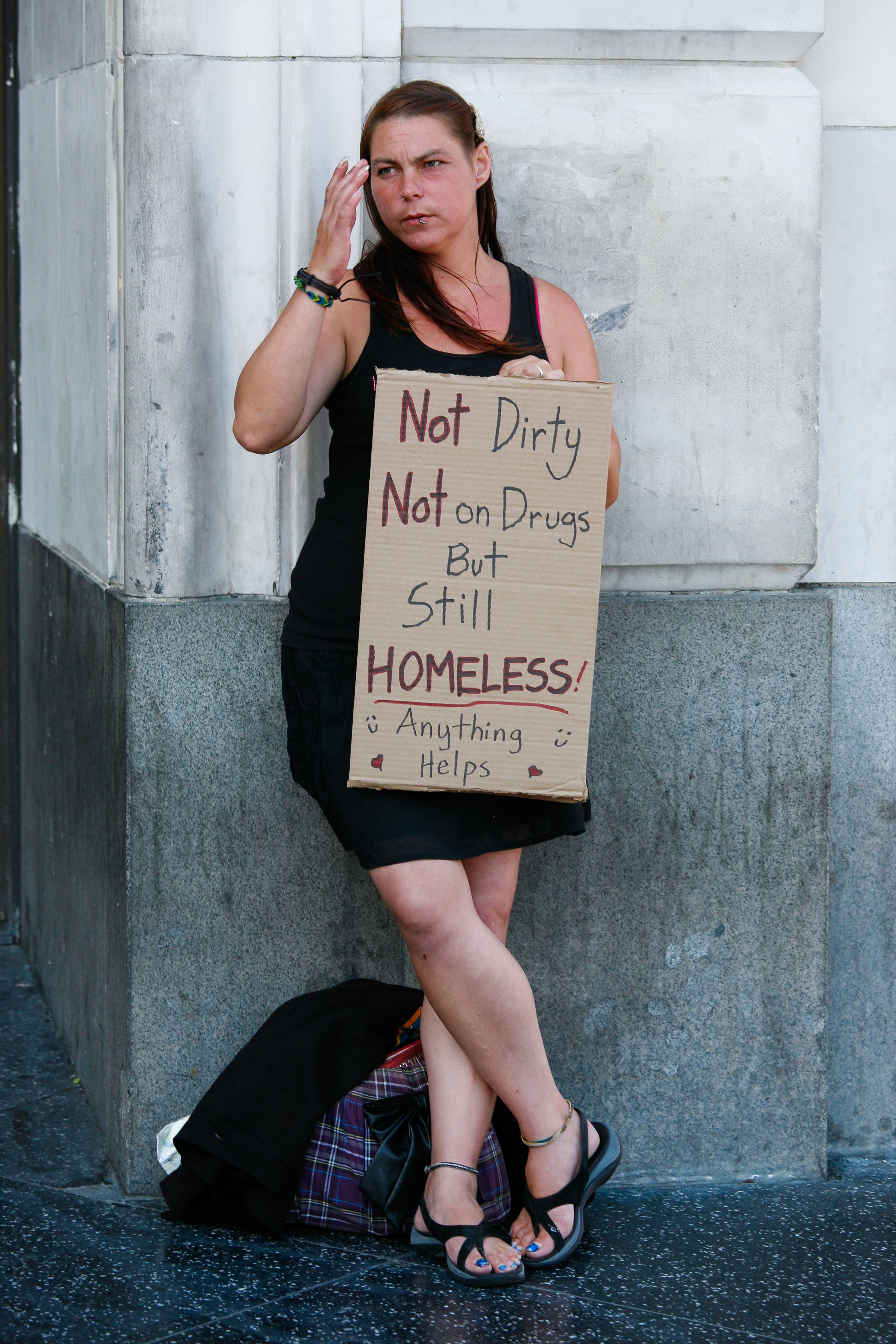 A homeless woman in Los Angeles California holding up a sign informing of her situation